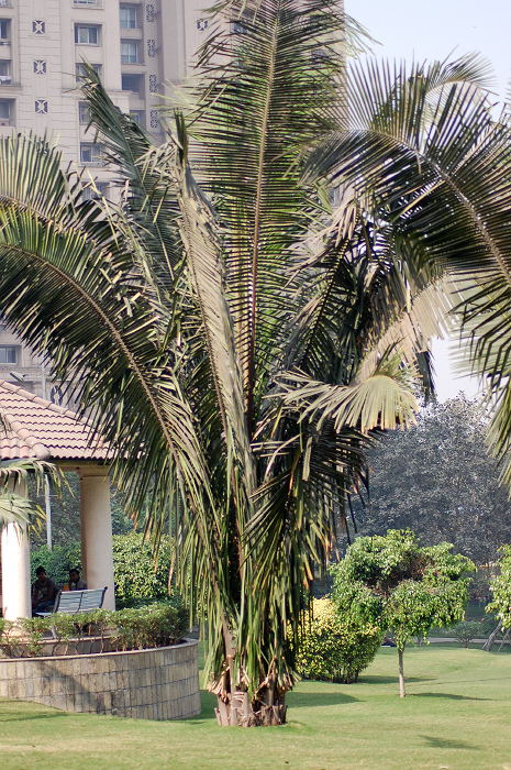 A specimen of Attalea cohune from Arecaceae (Palm family).